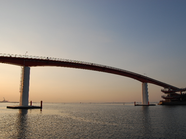 Nakanoshima Ohashi" is the crimson bridge on the Kisarazu port. This bridge is biggest sidewalk bridge in Japan.